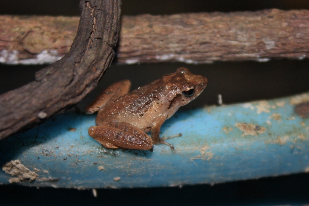 Romer's Tree Frog (Liuixalus romeri). Tsui Hang area and an unlikely blue bucket breeding habitat.